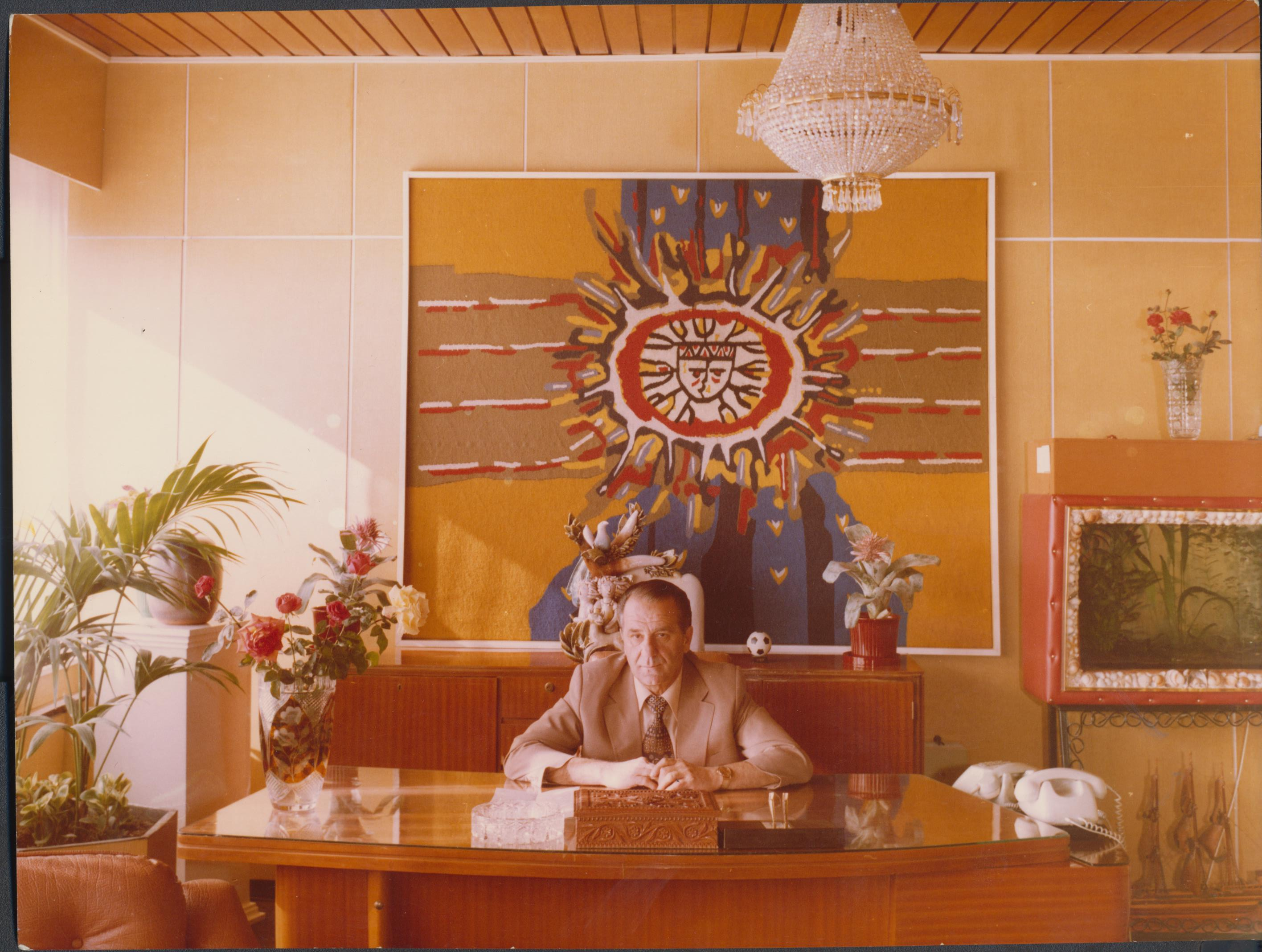 Executive of firm Prvi maj - Dragan Nikolic